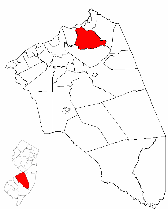 Map of Burlington County highlighting Mansfield Township